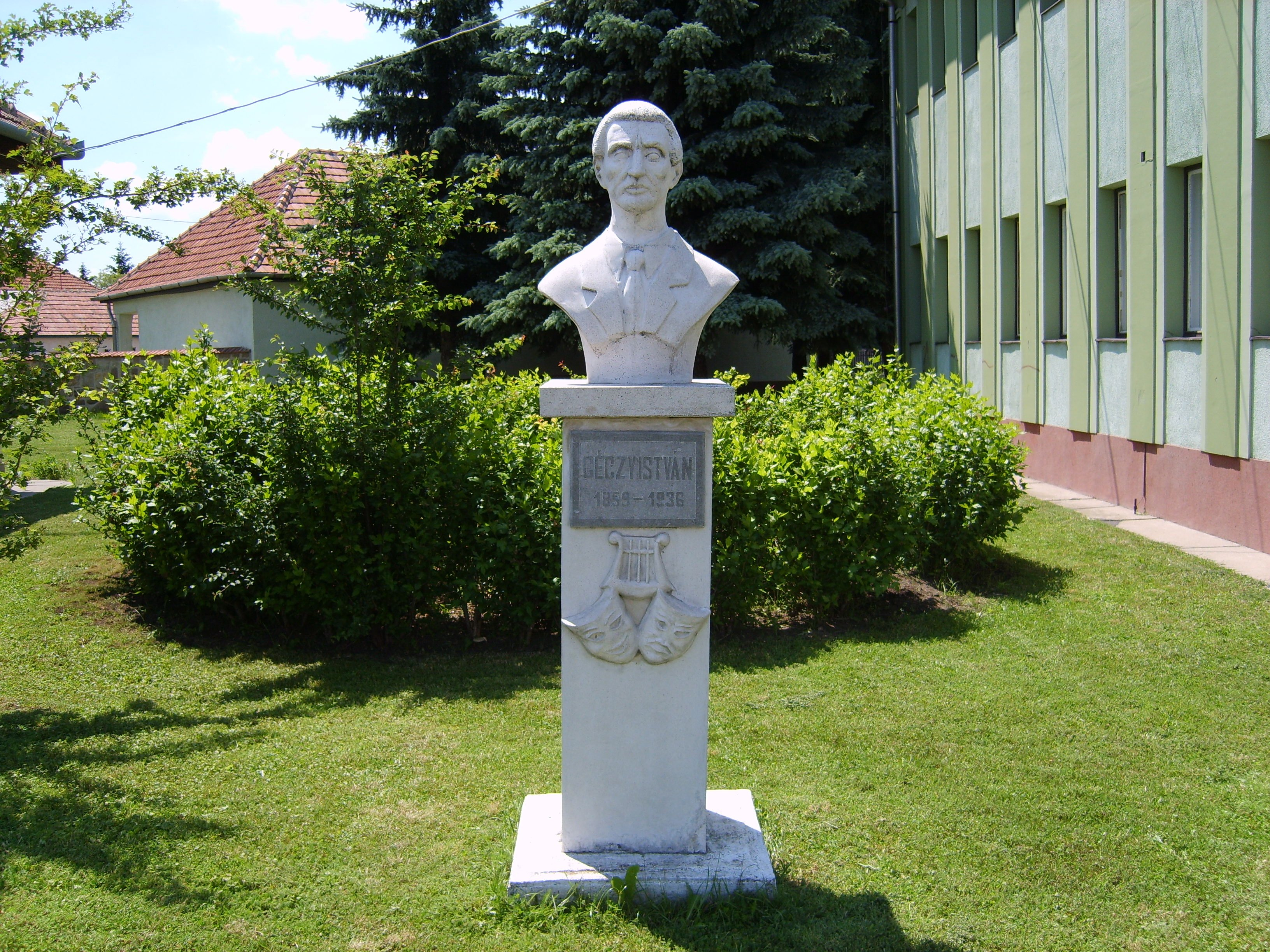 Bust of Géczy István (director) in Bükkábrány, Hungary